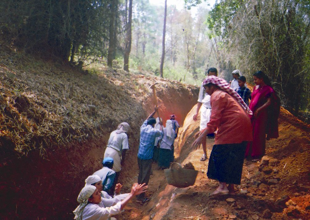 Author = Rajankila